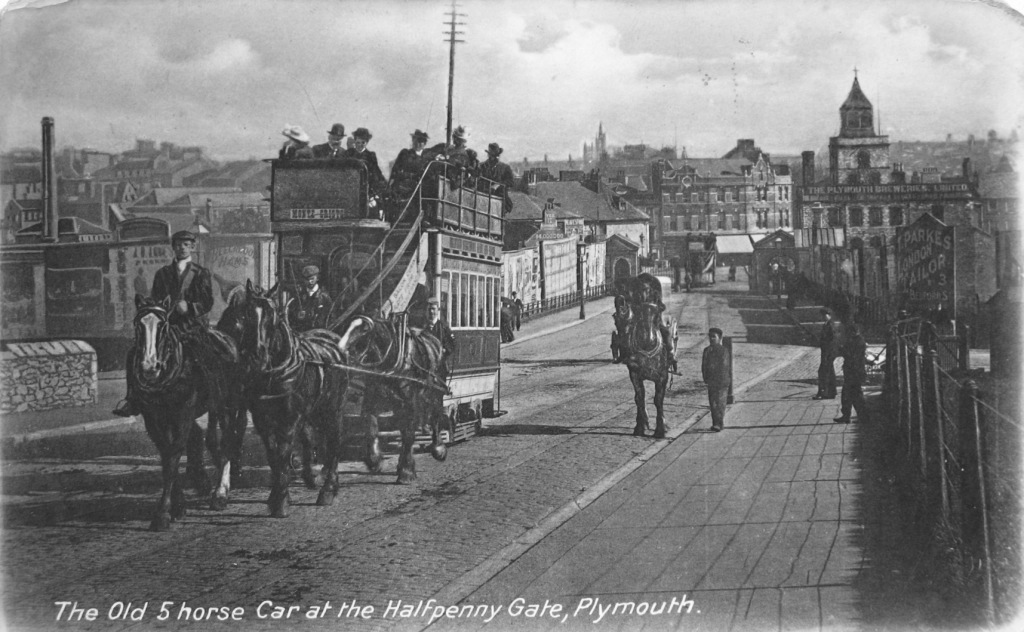 A horse tram crossing the Halfpenny Bridge at Stonehouse, Devon. Two horses hauled the tram from the Theatre terminus at Plymouth to the bridge where two more were added to help over this slightly graded section, but another horse or two would be added for the steeper section up Devonport Hill. The route was converted to electric power in 1901.